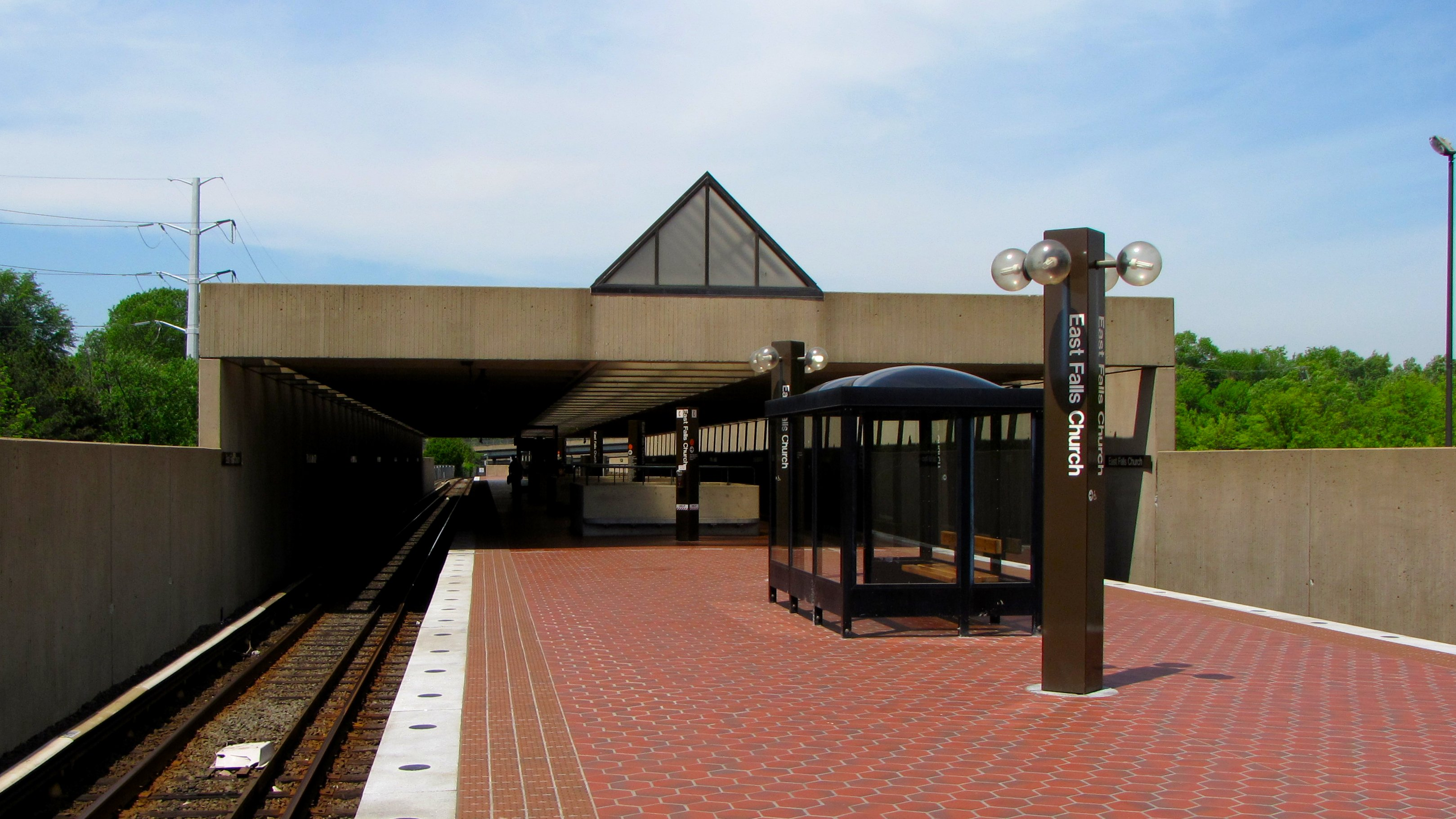 Inbound end of East Falls Church station.